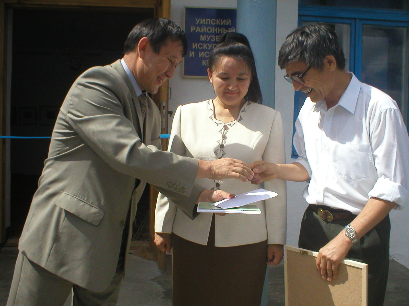 in Uil